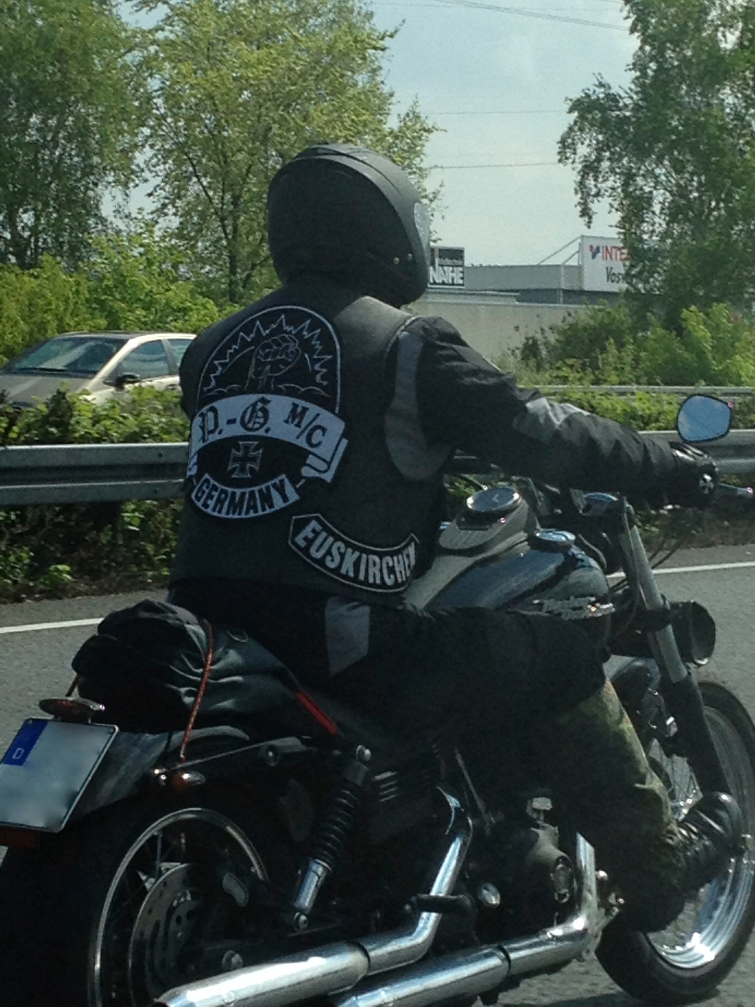 Gremium MC